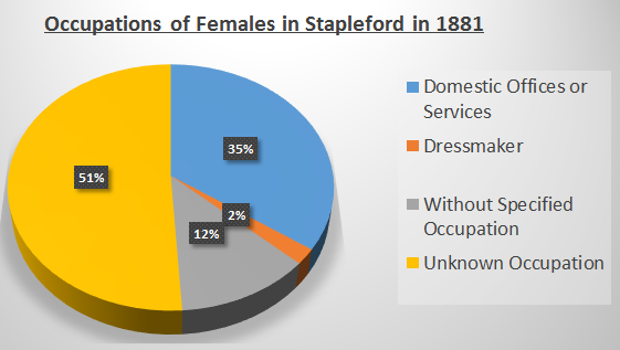 Occupational Structure of Females reported by the census reports from Vision of Britain